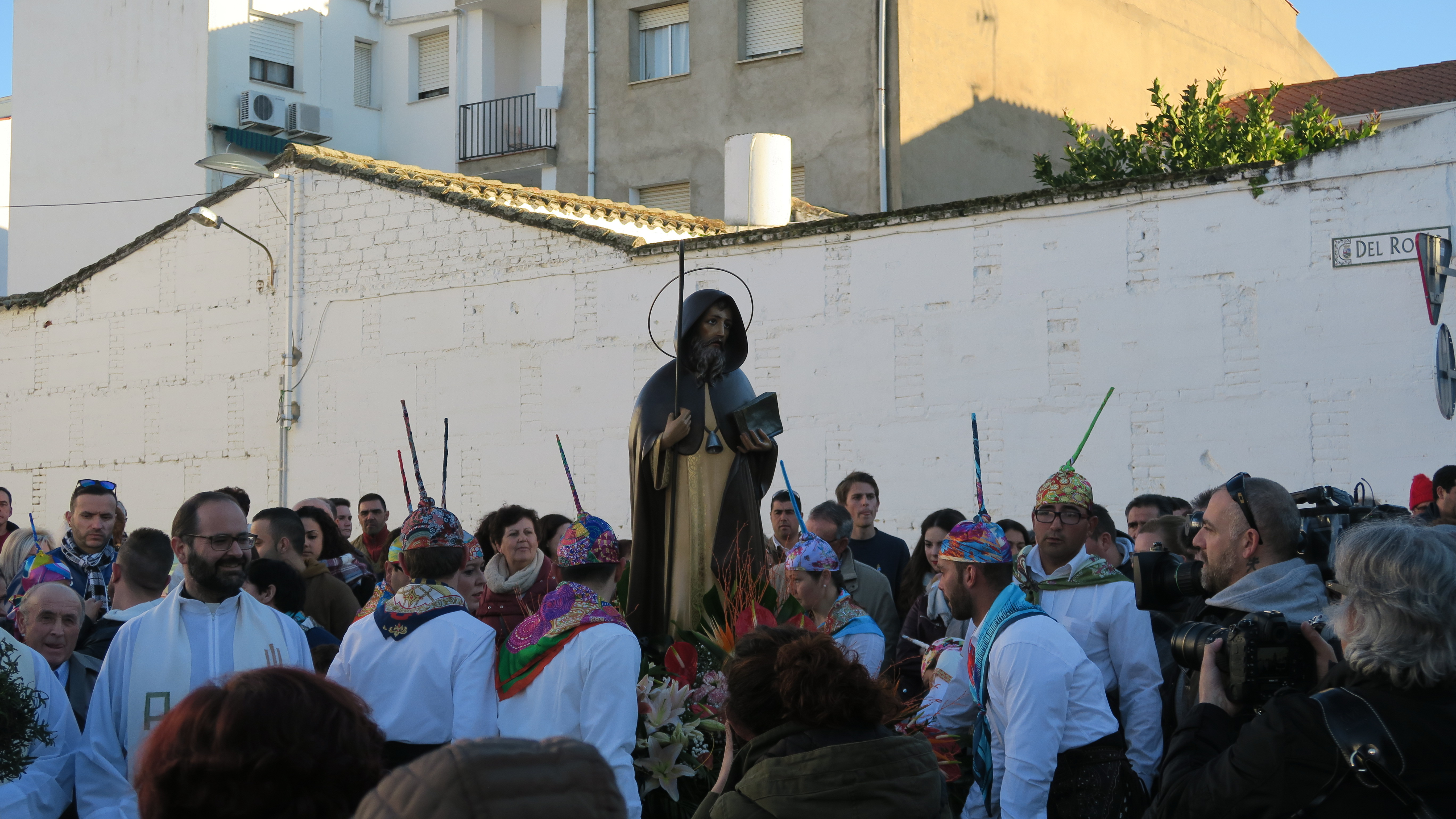 This is a photography of a Folklore festival in Spain (Wikidata id Q5963233).